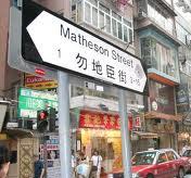 photo